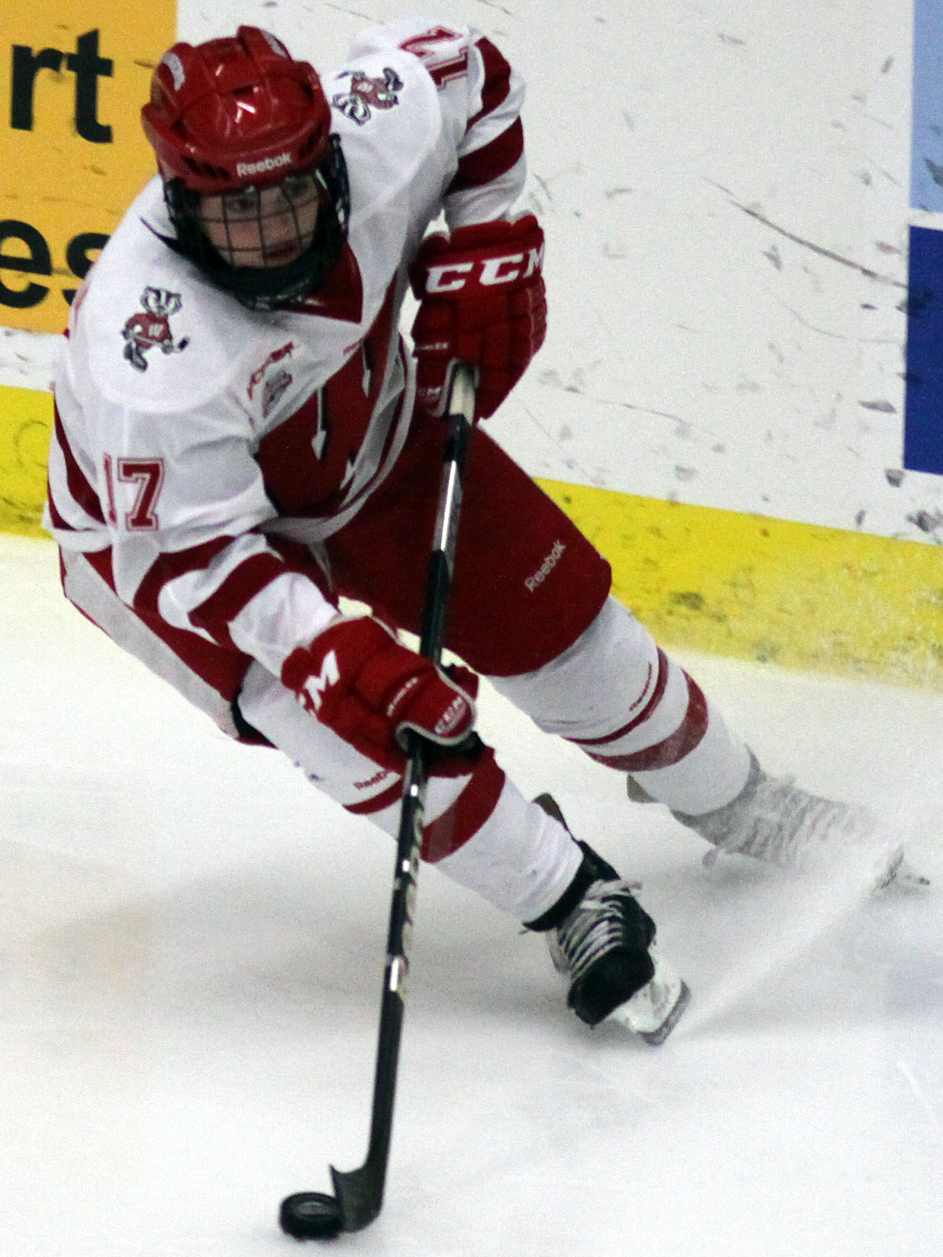 Wisconsin Badgers women's ice hockey forward Blayre Turnbull